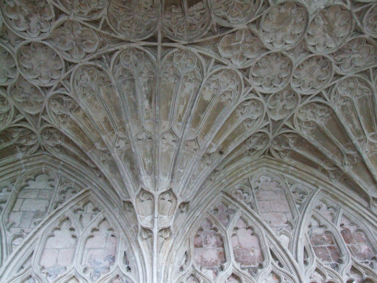 Gloucester cathedral, Gloucester, England - Fan vaultings within the cloister